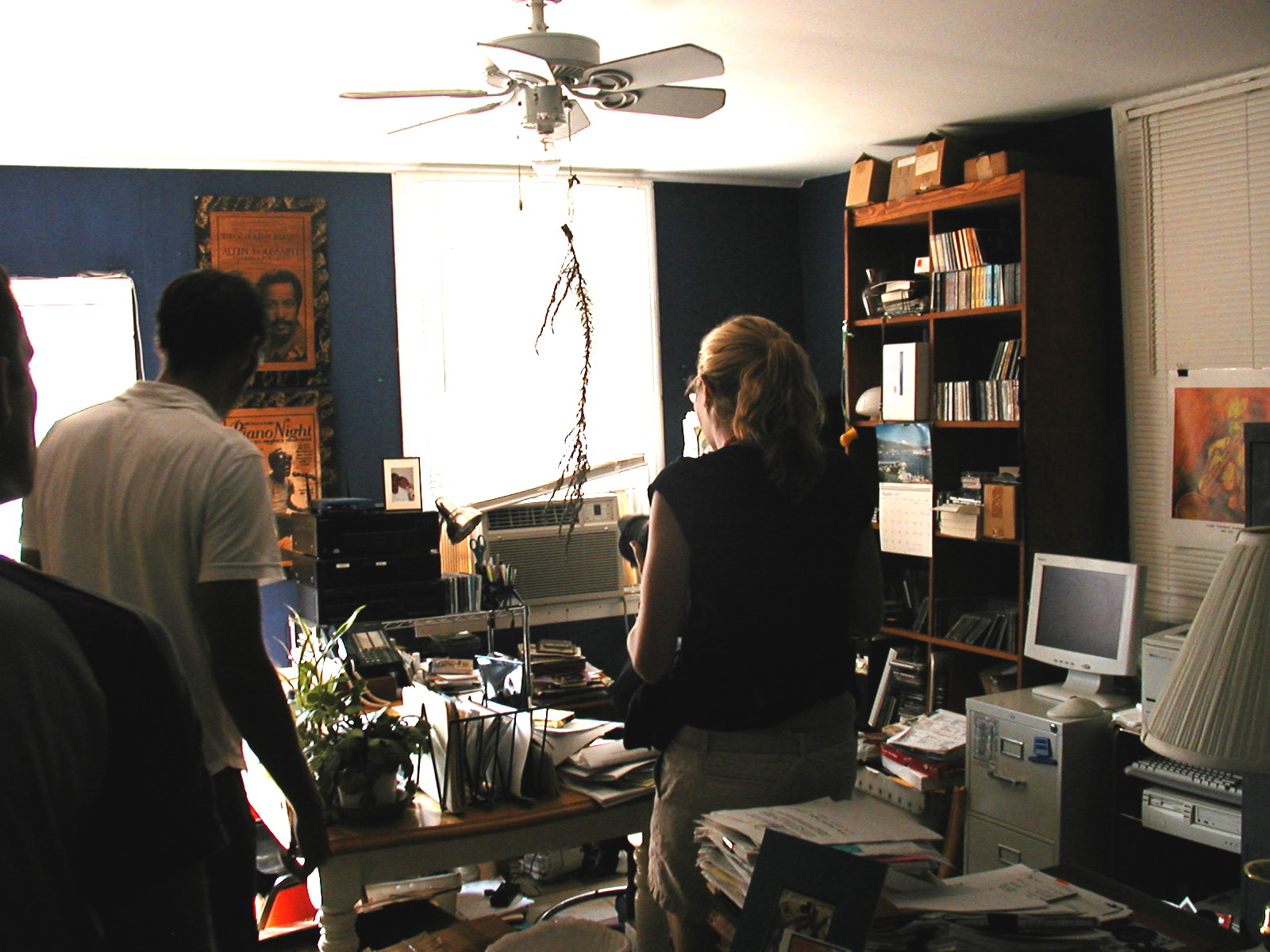 Radio WWOZ, temporary headquarters after Hurricane Katrina before the return to New Orleans (Baton Rouge?)